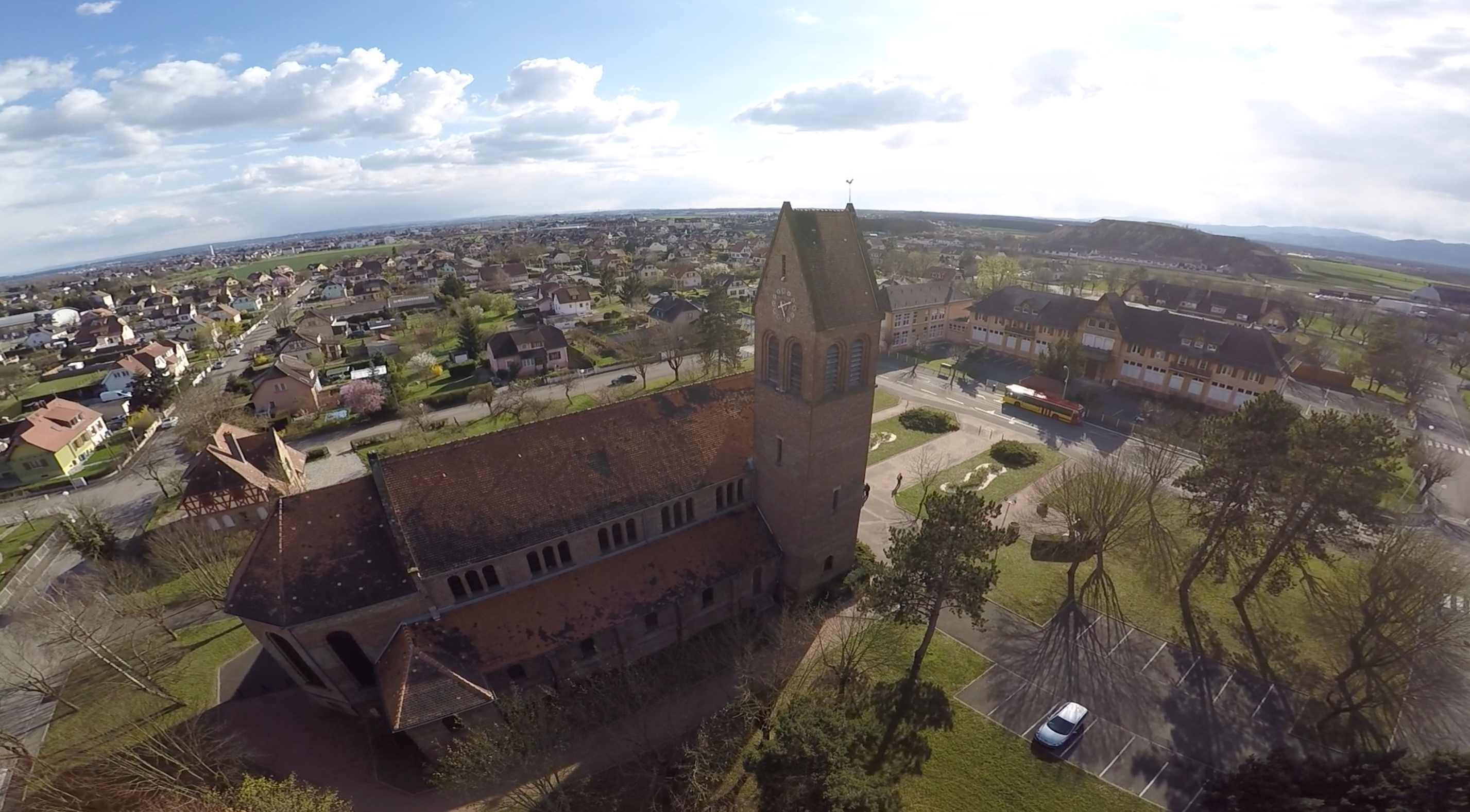 Eglise Sainte Barbe de Wittenheim